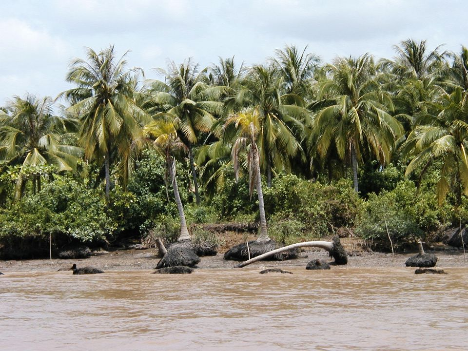 Mekong Bank Erosion, in Binh Dai district, Ben Tre province, Vietnam